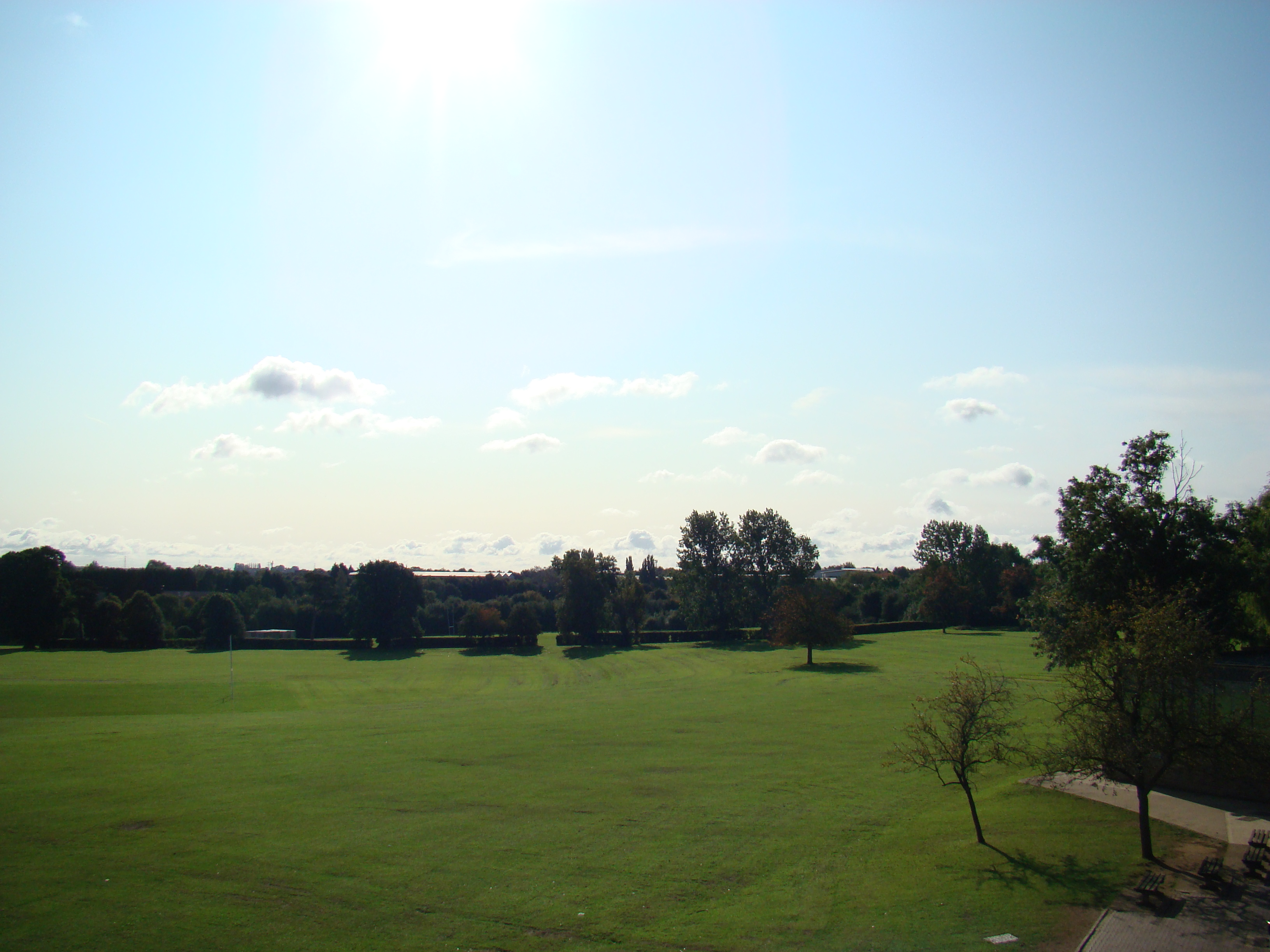 A view over the fields of the Royal Latin School, Buckingham, United Kingdom